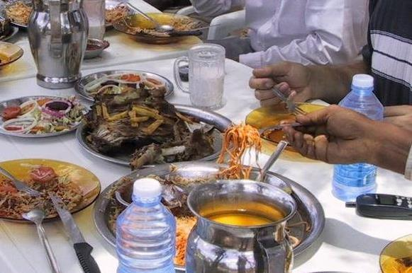 Various types of traditional Somali dishes.